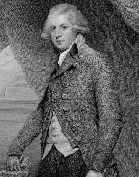 Portrait of Richard Brinsley Sheridan